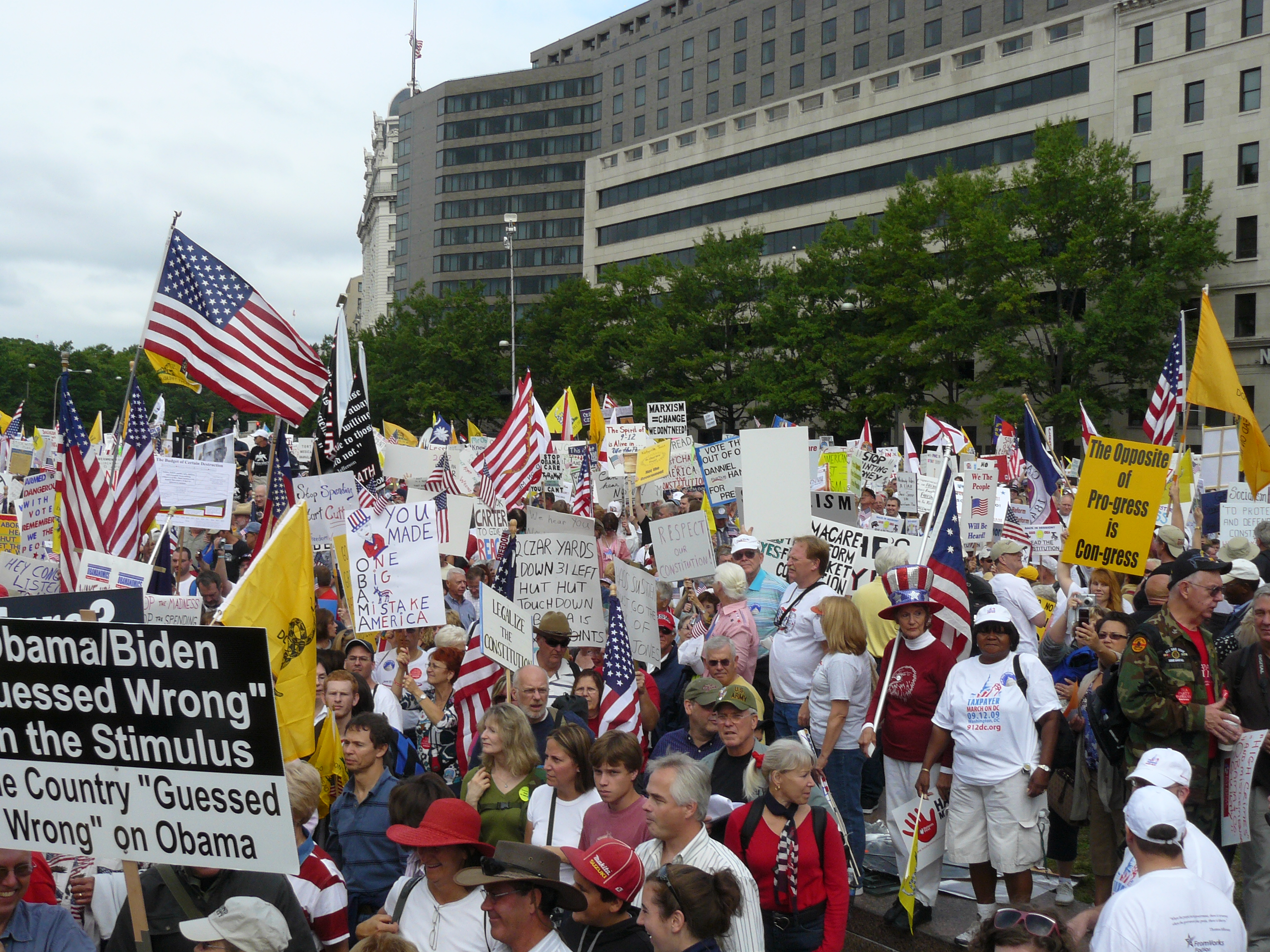 Tea Party Protest, Pennsylvania Avenue, Washington D.C., 9/12/2009